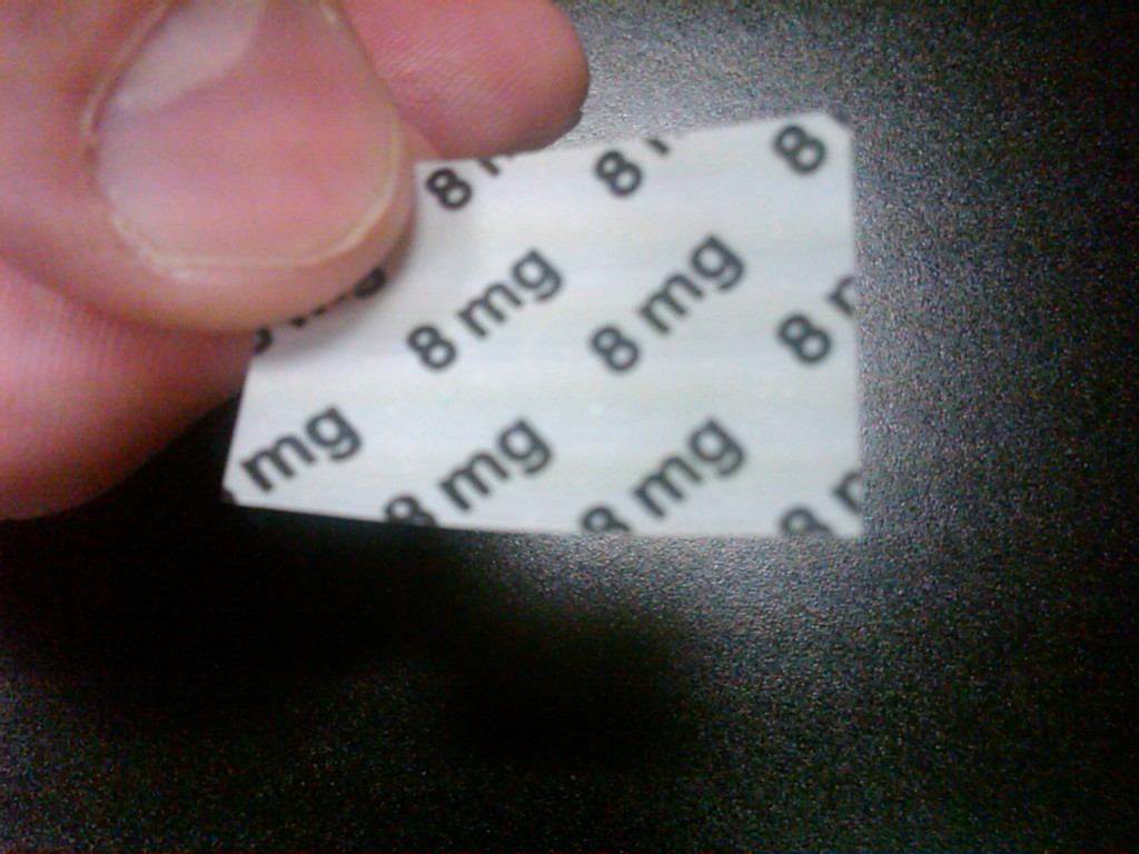 Zuplenz 8mg (approved by FDA, July 7, 2010). Photo courtesy of MonoSol Rx.